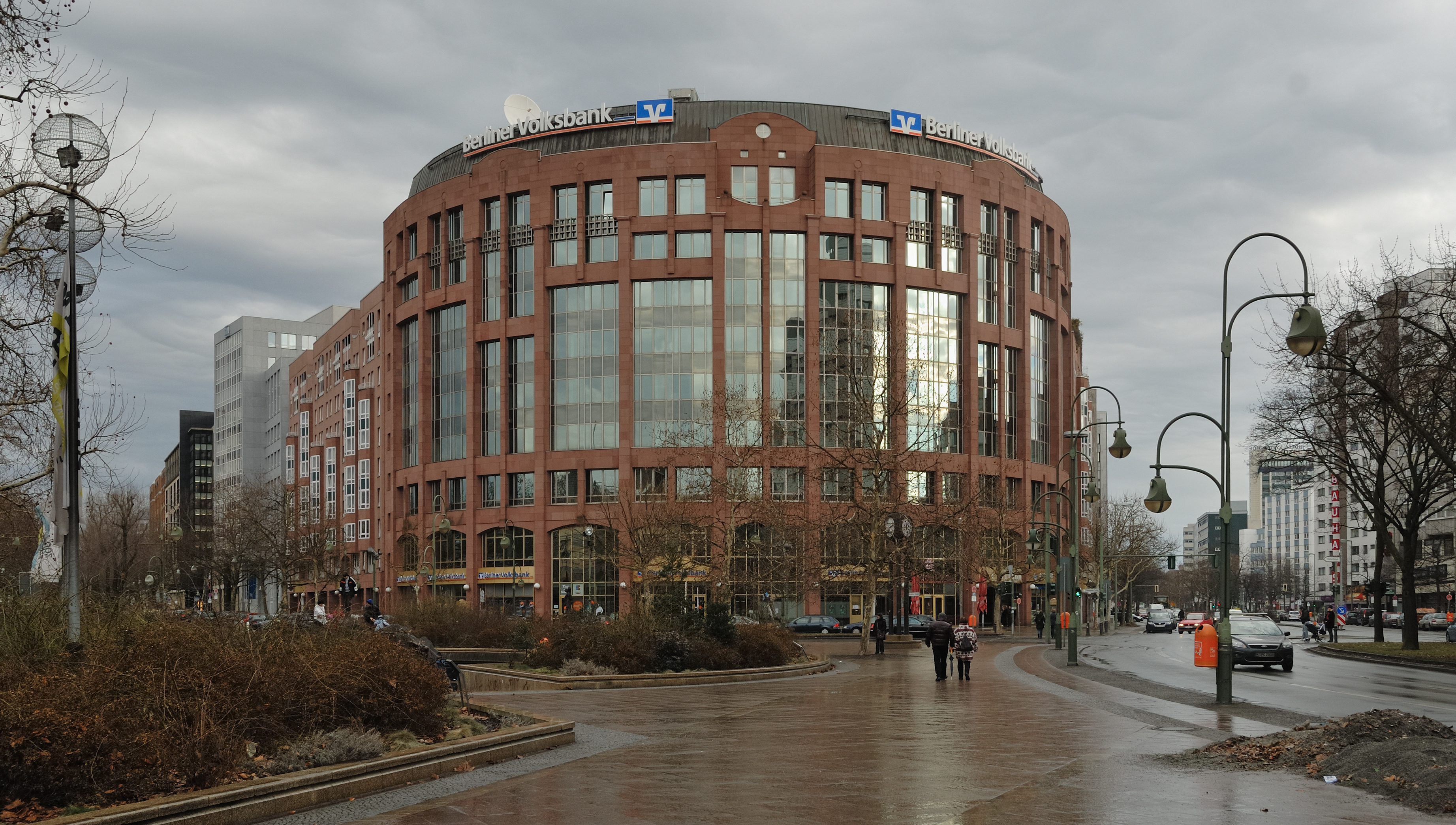 Seat of "Berliner Volksbank" in Budapester Str., Berlin. 2008 it had total assets of about 10 billion Euro.